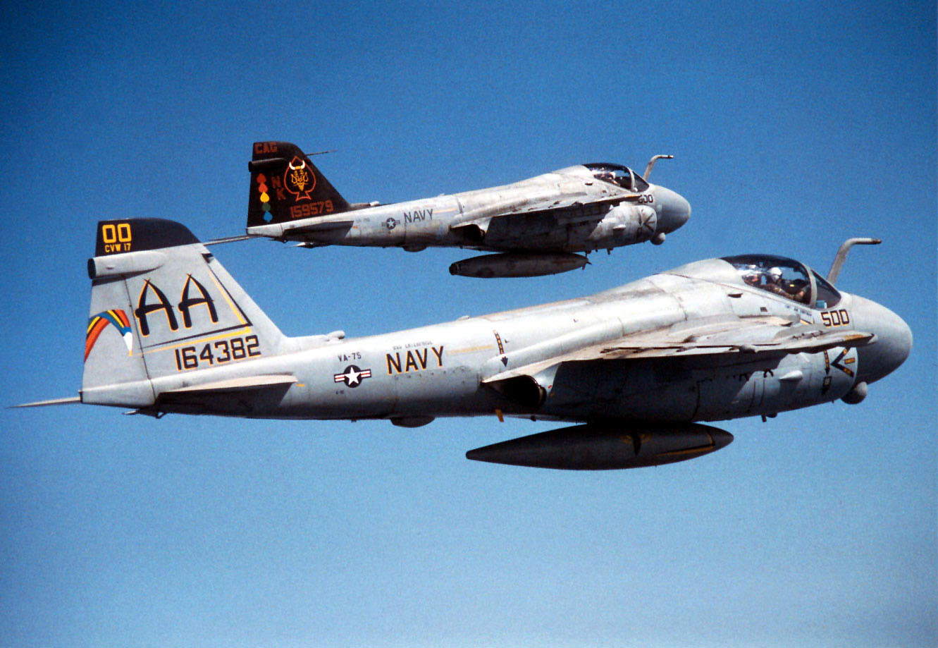 Two U.S. Navy Grumman A-6E Intruder aircraft patrol the skies over the Persian Gulf in support of Operation Southern Watch in on 26 Sep 1996. Both aircraft were the respective aircraft of the "Commander Air Group" (CAG) of two different Carrier Air Wings (CVW). The A-6E flying nearer to the camera (BuNo 164382) was assigned to the Sunday Punchers of Attack Squadron VA-75 and the "CAG-bird" of CVW-17 aboard the carrier USS Enterprise (CVN-65). The other A-6E (BuNo 159579) was assigned to the Main Battery, Attack Squadron VA-196, CVW-14, deployed aboard the USS Carl Vinson (CVN-70).